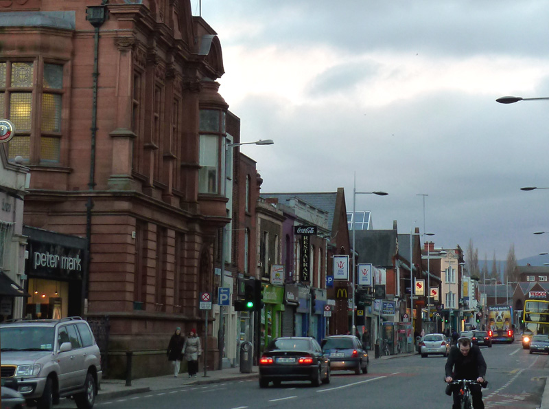 Photograph of Lower Rathmines Road, Dublin, Ireland